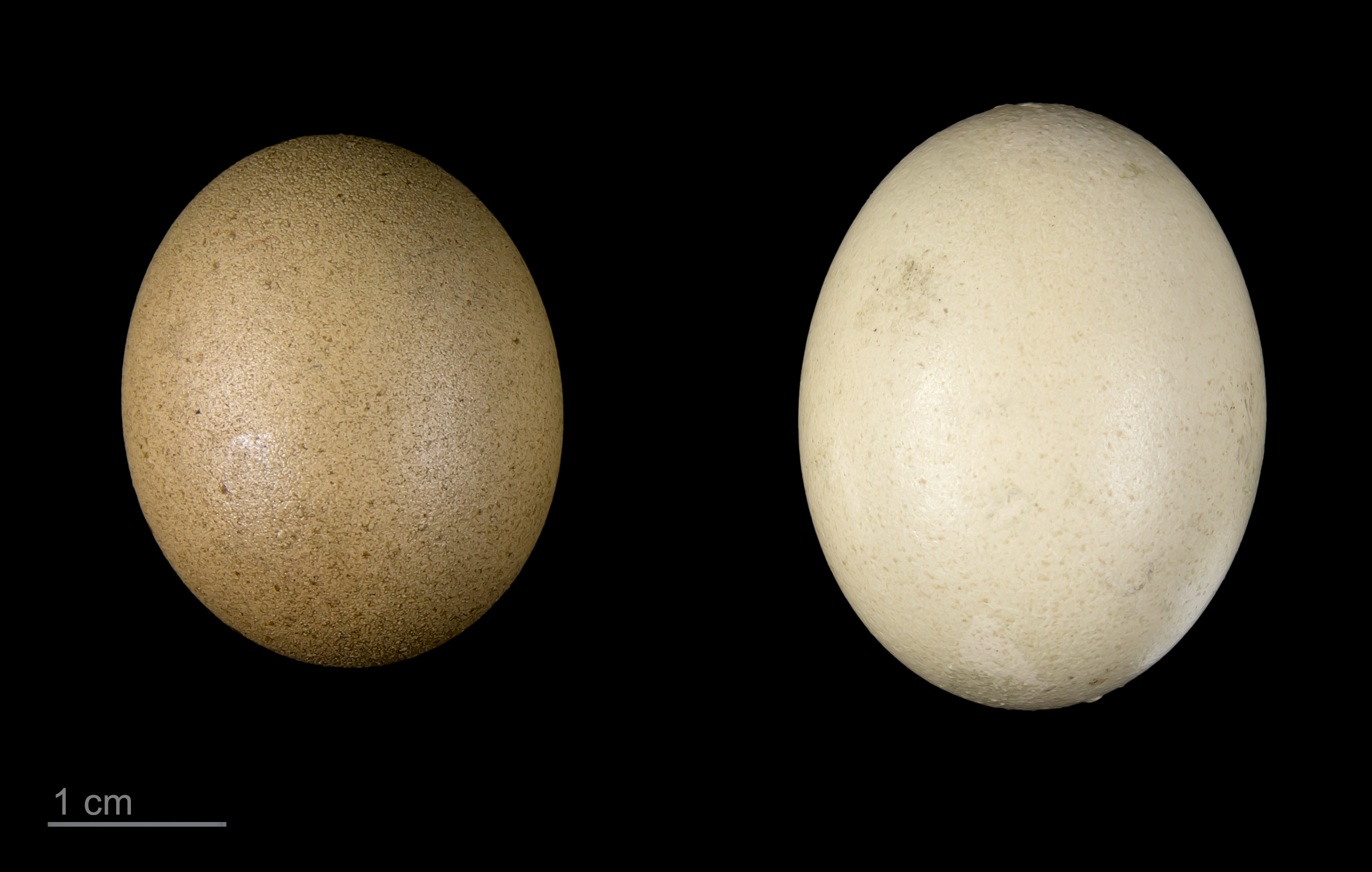 Egg of Gallus gallus Collection of Jacques Perrin de Brichambaut.